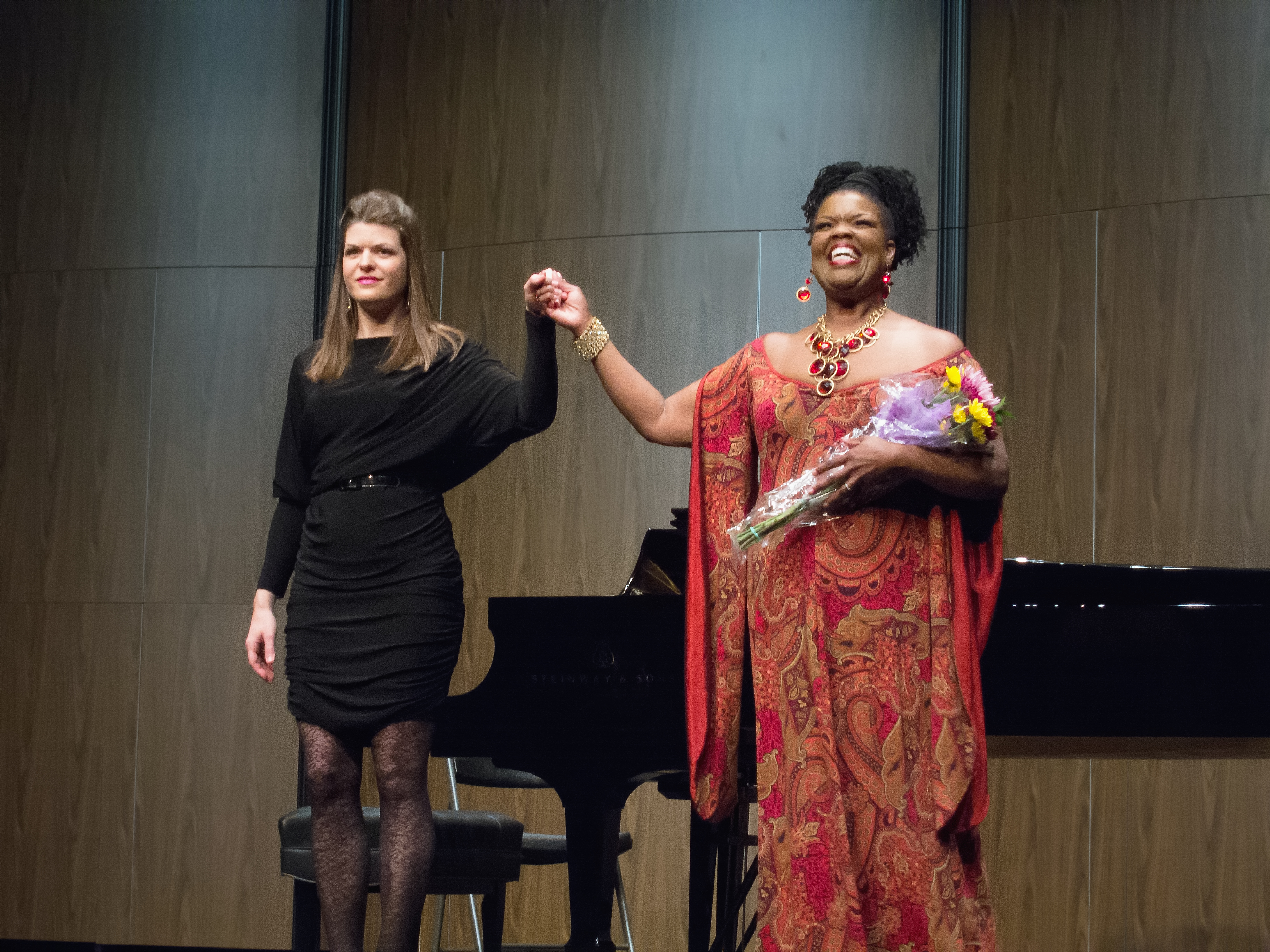 We were fortunate to have Angela Brown in Birmingham to dedicate the new Dorothy Jemison Day Theater. She was incredibly gracious and more importantly, incredibly talented. She gave a 5 out of 5 stars review for a wonderful evening that will be long remembered. Kelleen Strutz was terrific too. Angela Brown, soprano Kelleen Strutz, piano An Evening with Angela Brown and Friends Dorothy Jemison Day Theater Alabama School of Fine Arts Birmingham, Alabama Friday, April 13, 2012